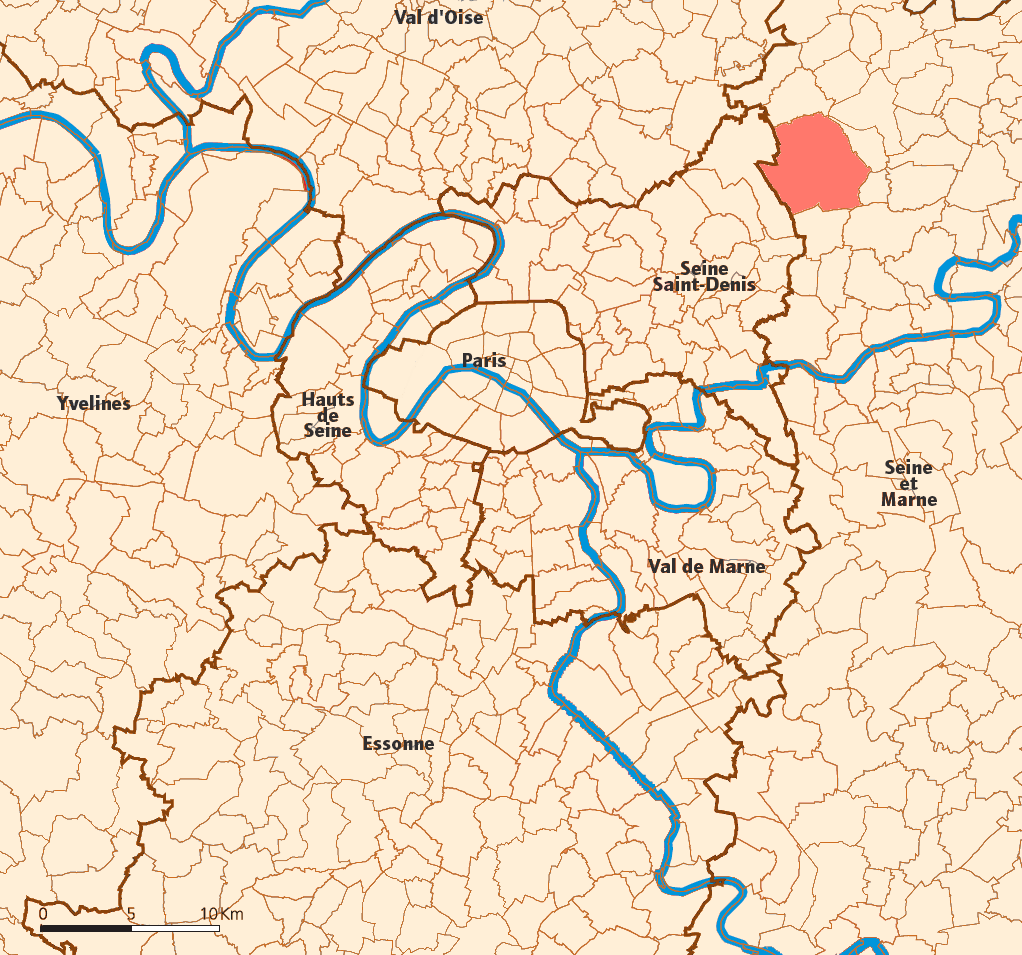 Created map myself.